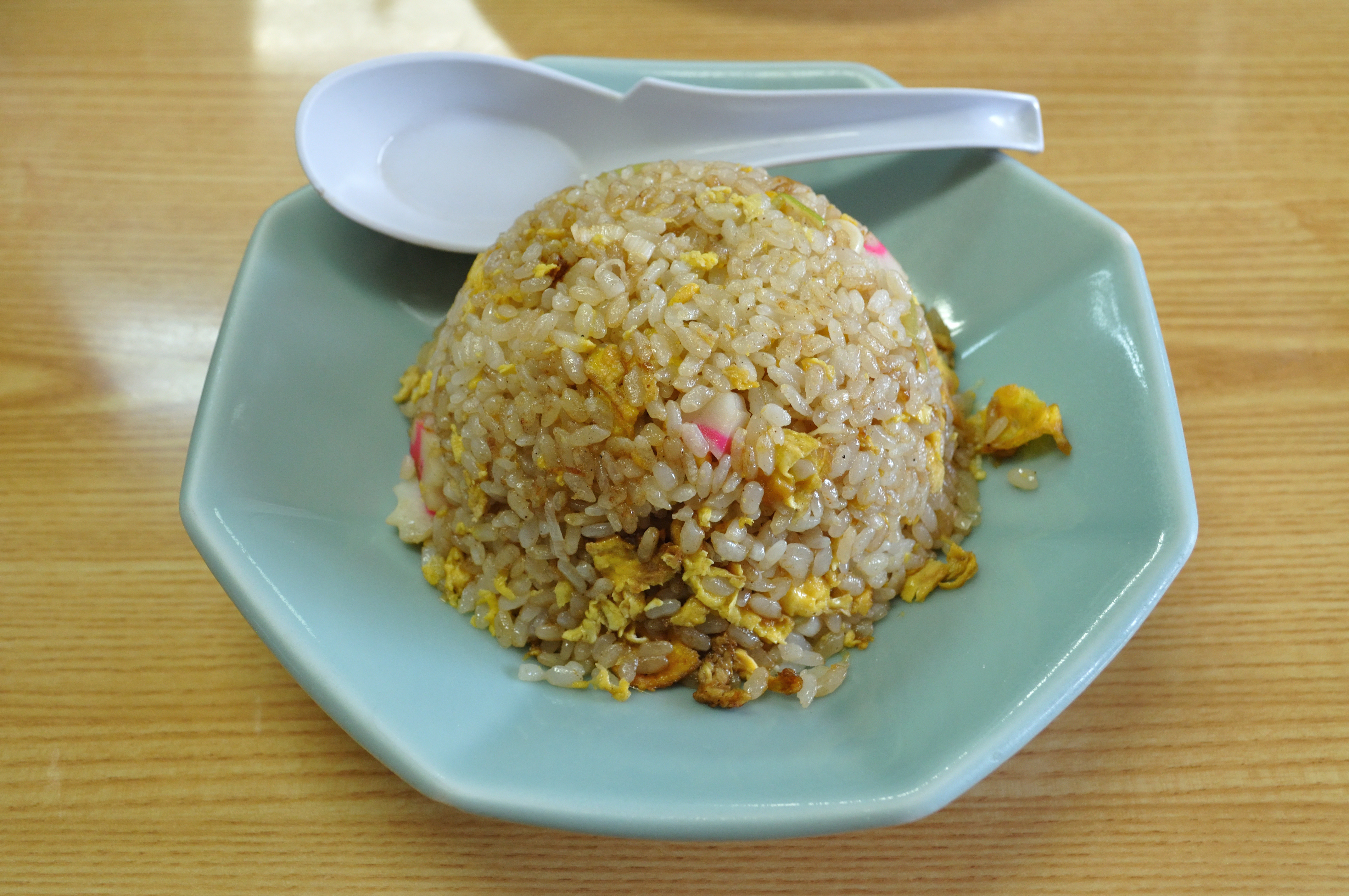 Ramen and Chahan set meal